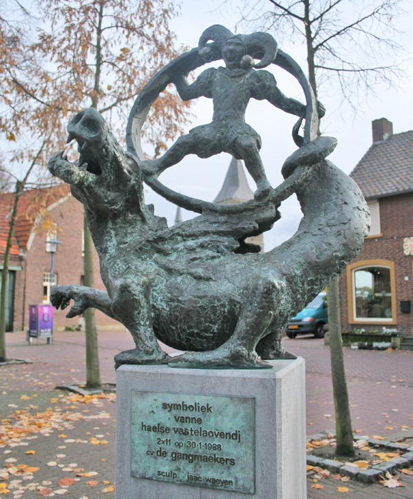 Monument at 61 Dorpsstraat, Heel (Maasgouw), Netherlands.